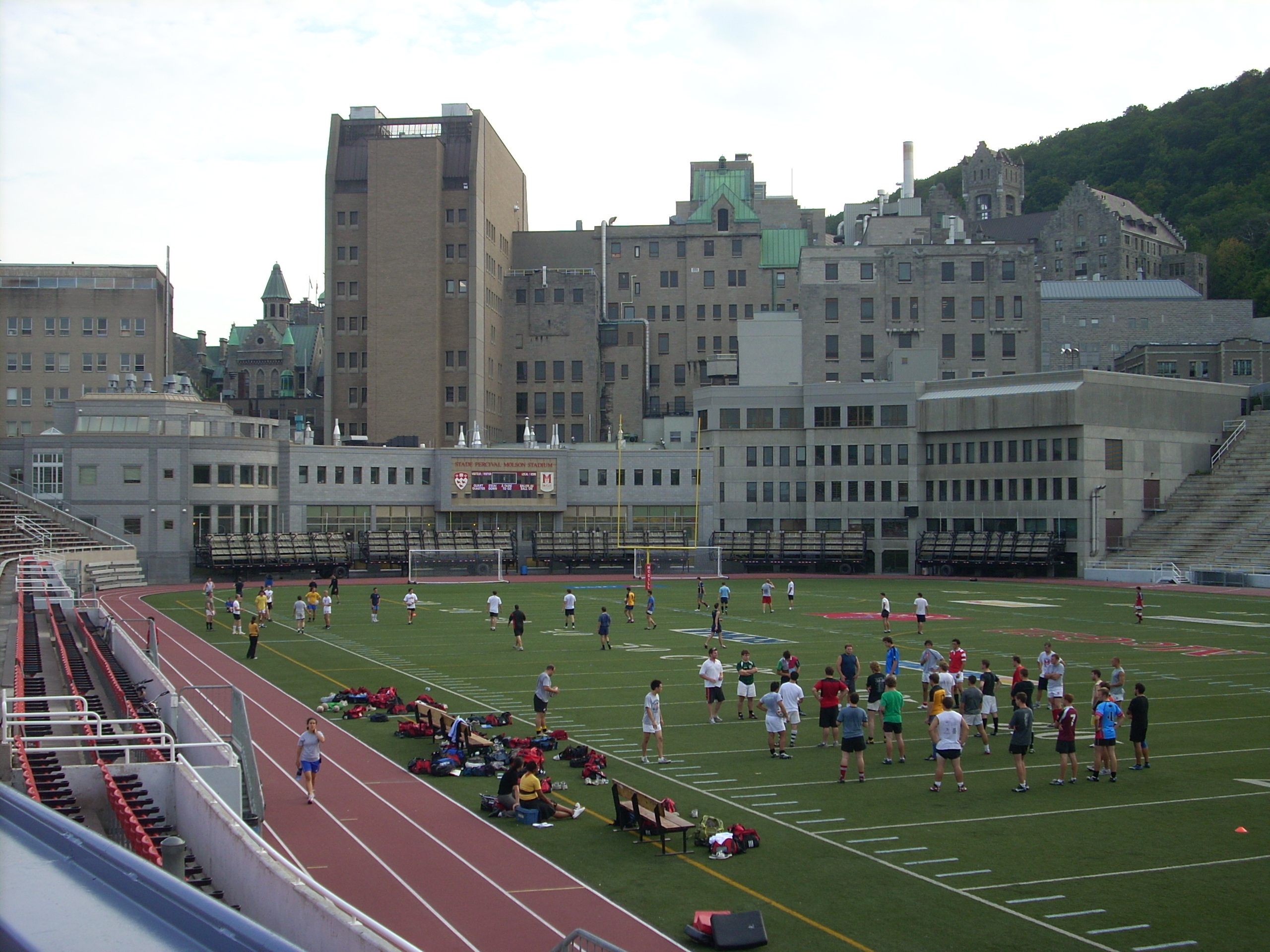 The Montreal Neurological Institute and Hospital, wrapping around one end of Molson Stadium.